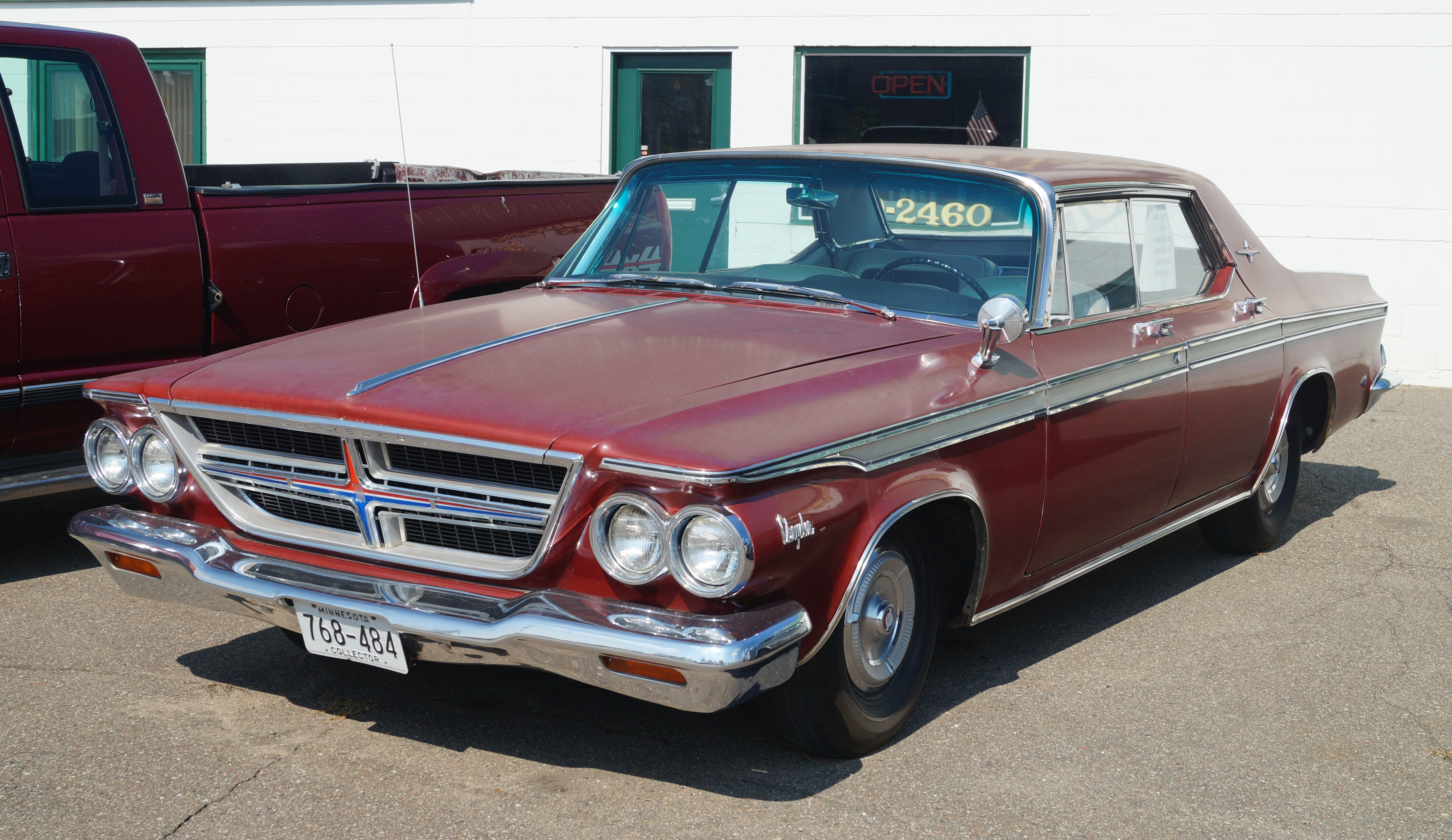 I could not see many cars on my way up to the Boat Show on Gull Lake, since it was very early, dark and foggy. Around the Boat Show and on the trip back I did catch a few. Click here for more car pictures at my Flickr site.